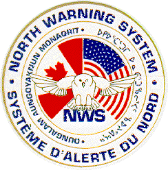 North Warning System emblem